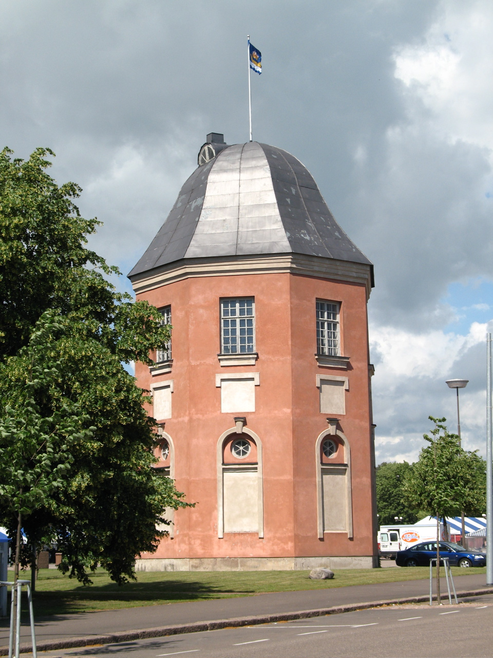 A flag tower in Hamina, Finland